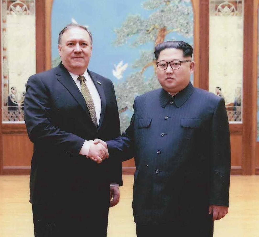 Photos of Secretary of State Pompeo in North Korea. Secretary Pompeo will do an excellent job helping President Trump lead our efforts to denuclearize the Korean Peninsula.